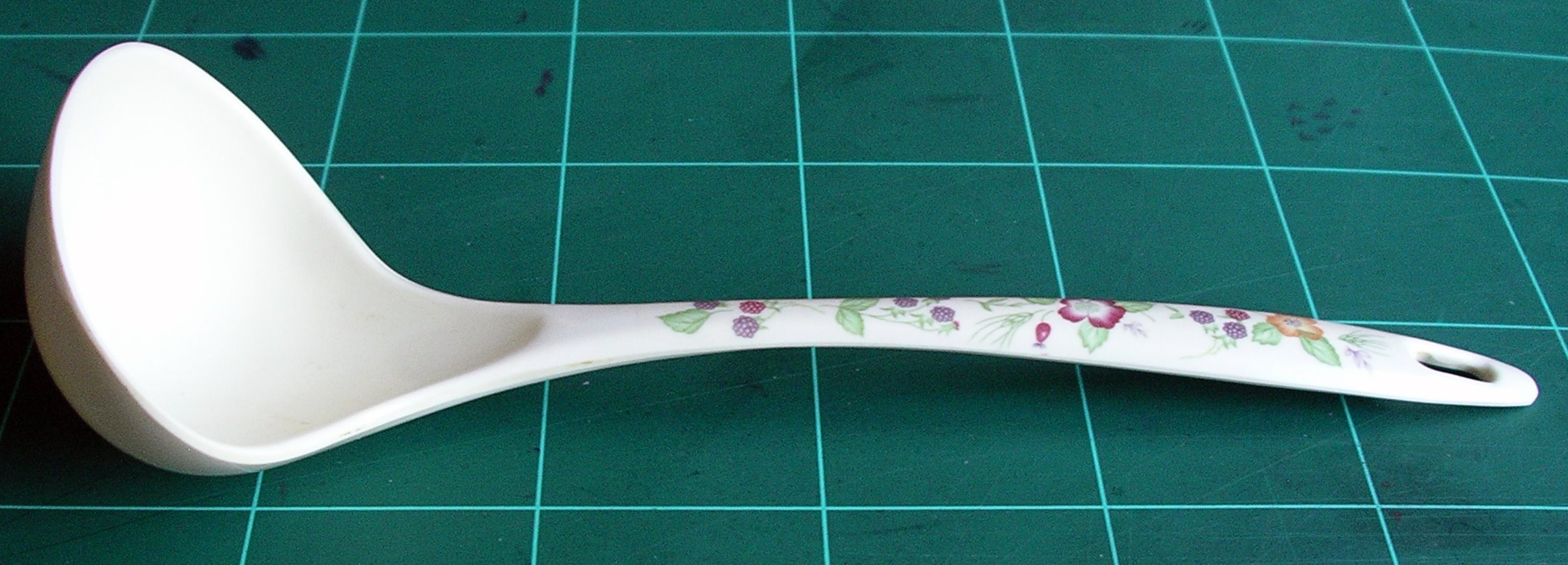 Ladle made of melamine - background of 5cm squares